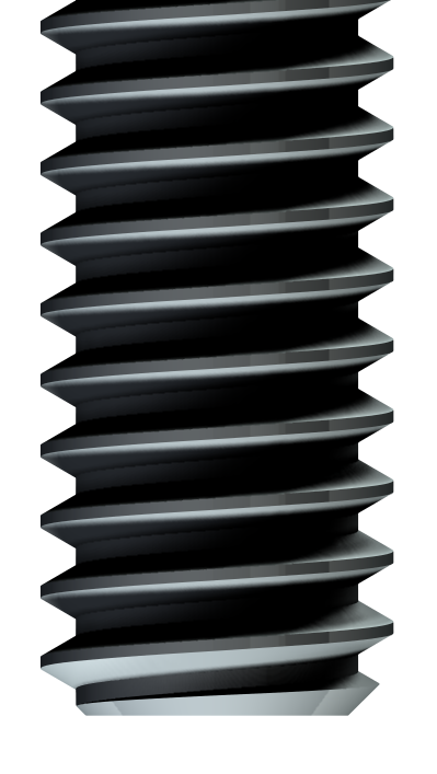 Sawing and separating processes